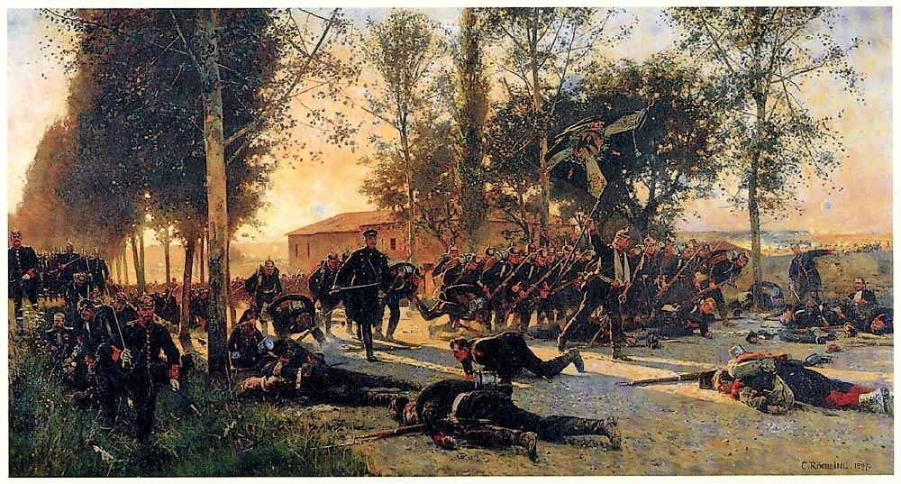 Gravelotte, 18 August 1870